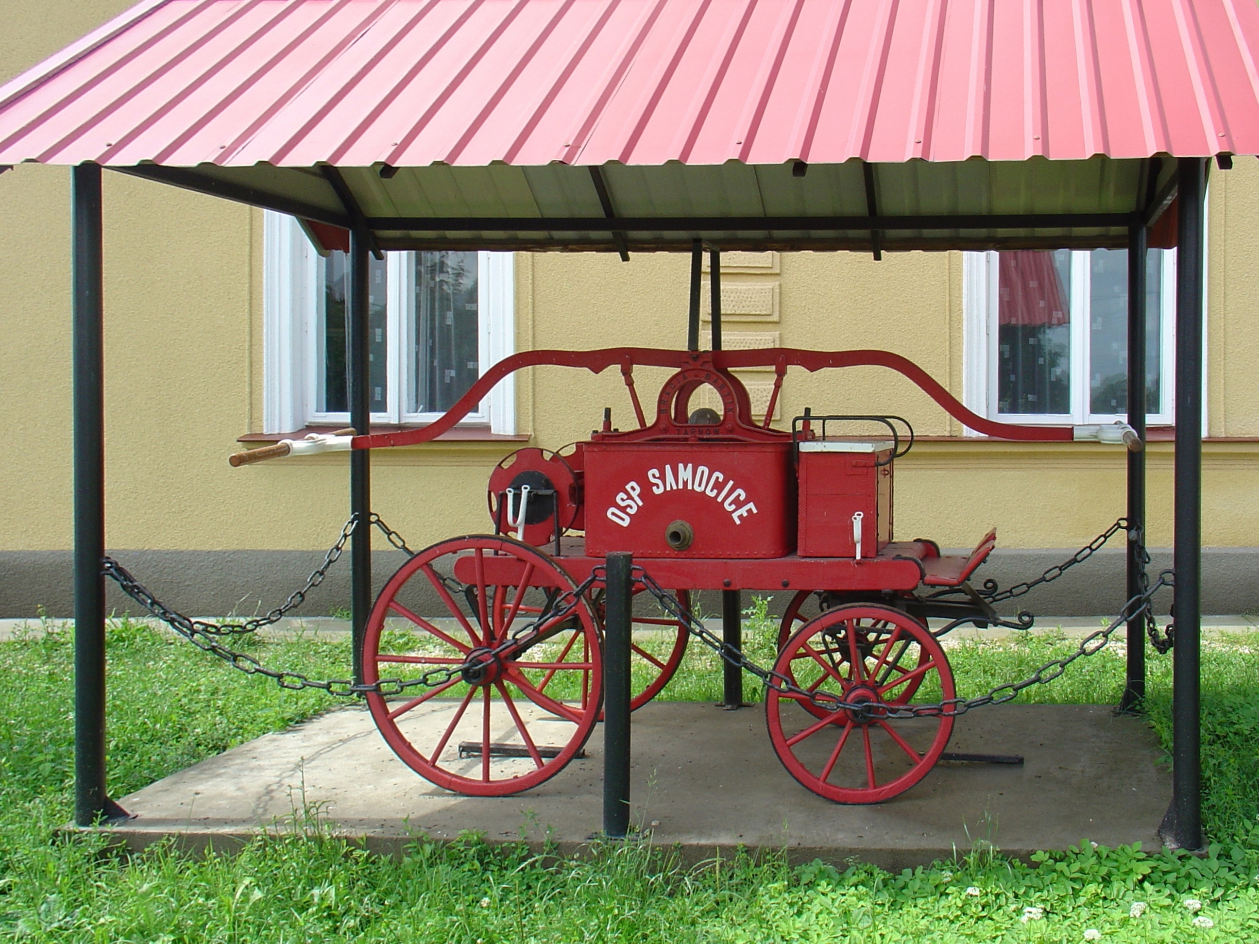 Samocice, antique fire truck with hand pump